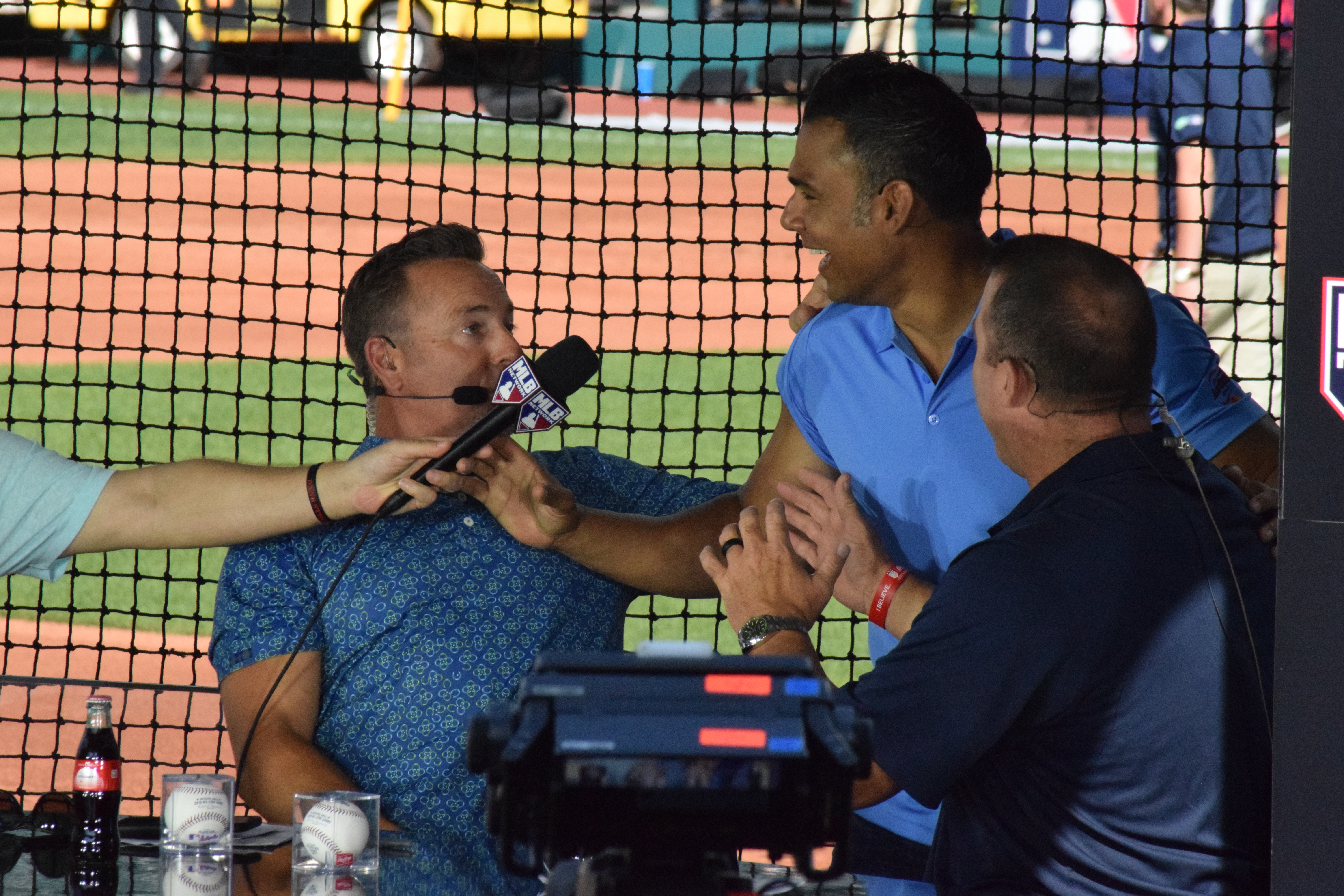 Carlos Pena broadcasting all star game in 2019